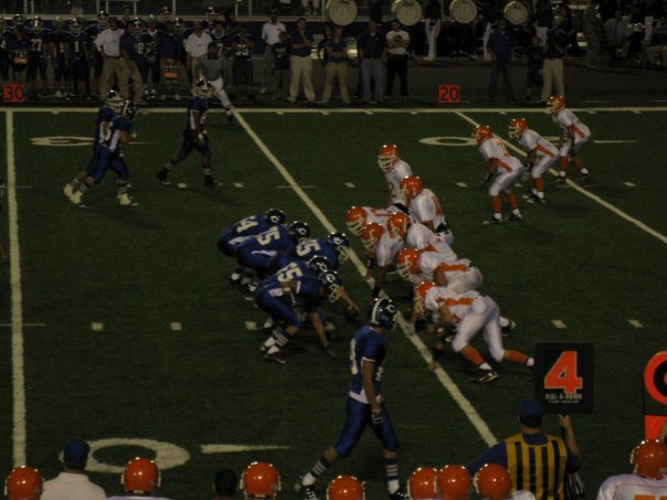 Carlsbad vs artesia , American Football game